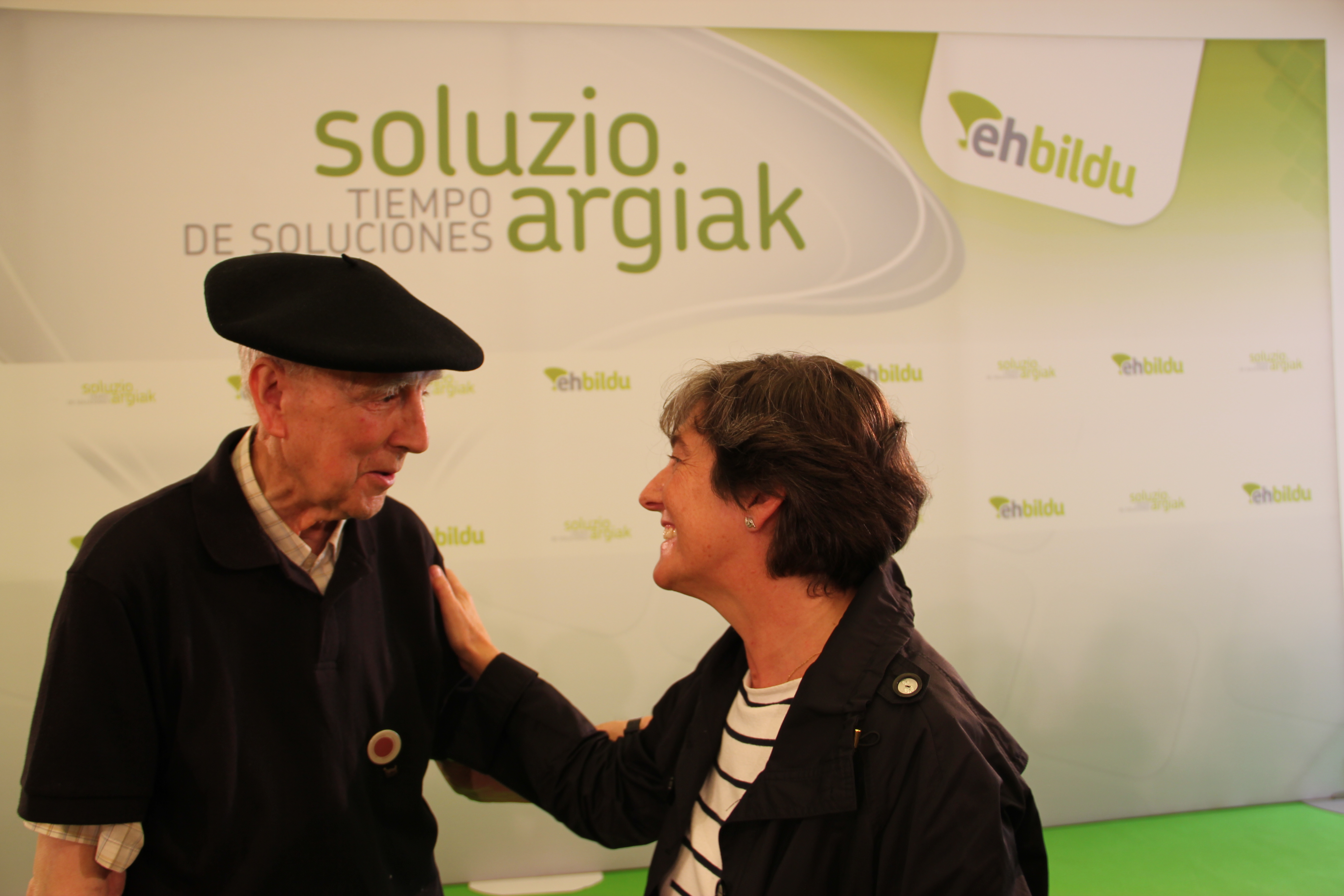 Periko Solabarria with Laura Mintegi